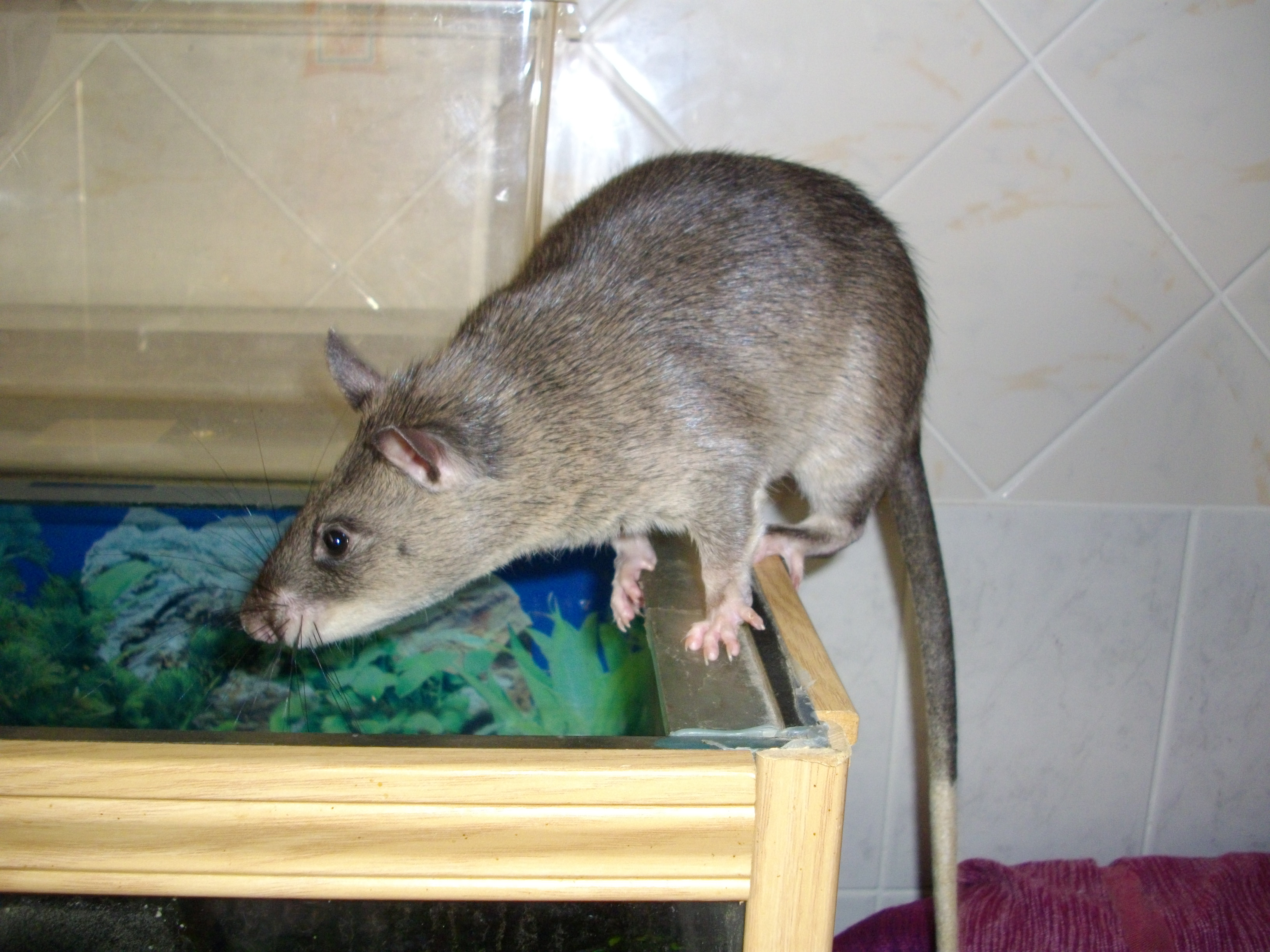 Apsilia, our cricetomys gambianus (giant poutched rat)